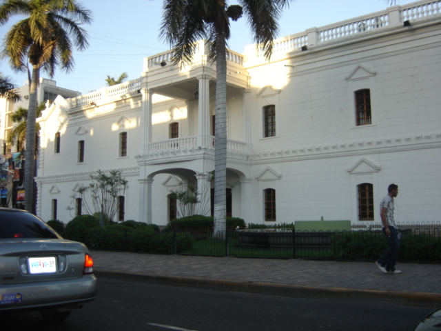 Culiacán Municipal Palace (city hall). Culiacán Municipal Palace.